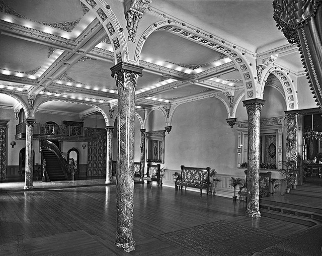 Ballroom at Alfred Baumgarten's house, Montreal, 1904